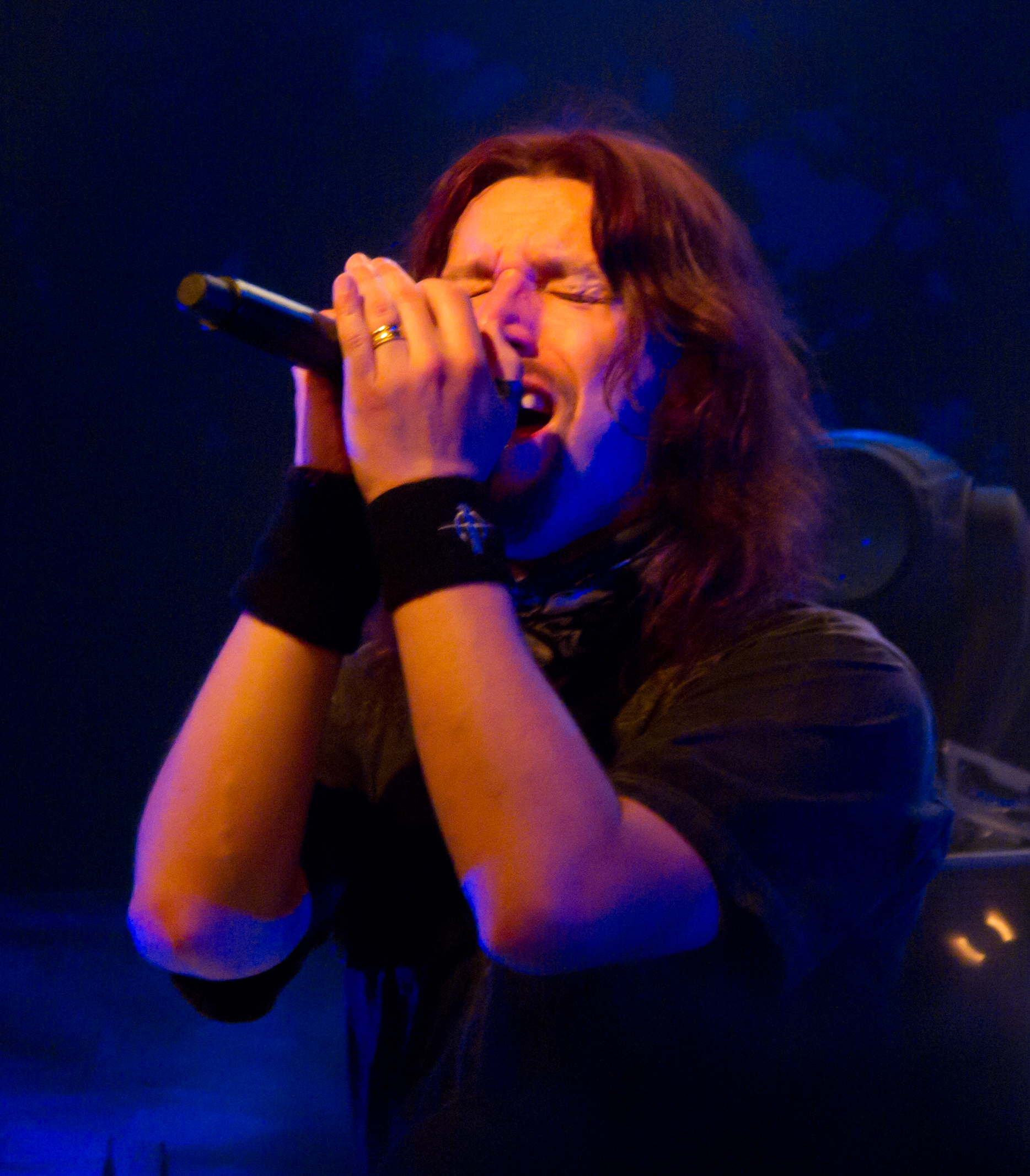 Tony Kakko (Sonata Arctica) in concert.